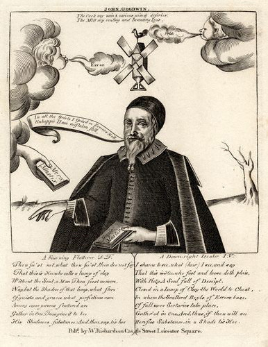 Satirical engraving of John Goodwin (1594 - 1665), radical preacher.